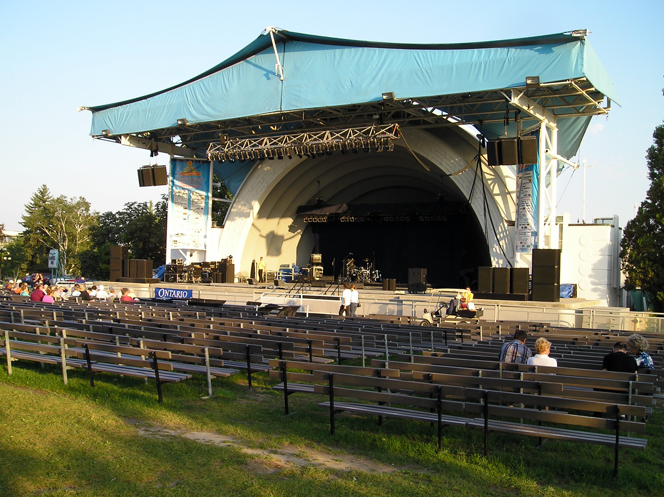 Picture of the bandshell on the Canadian National Exhibition grounds. Shot September 1st 2005, during the 2005 CNE.